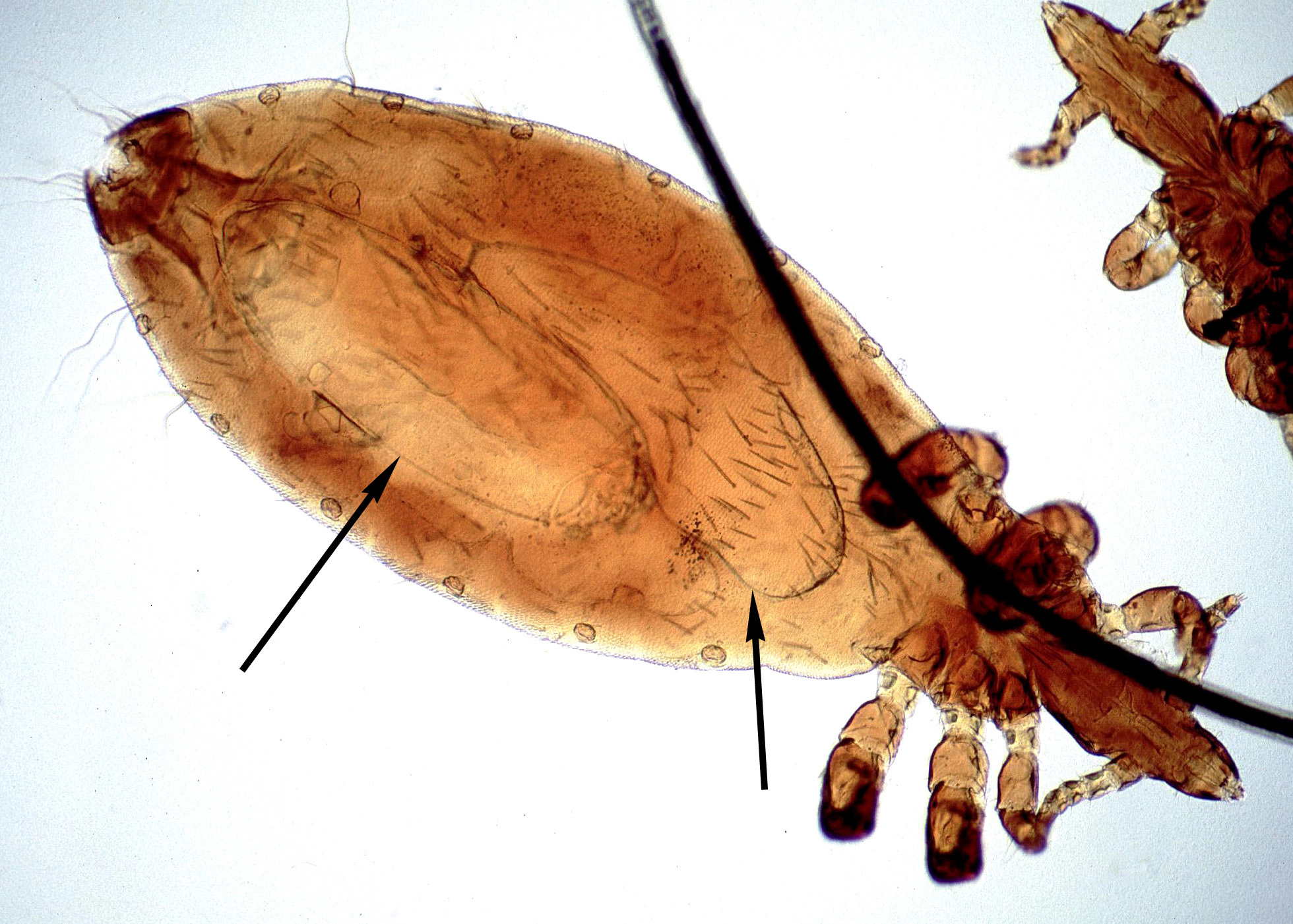 Linognathus louse clinging to hair of host and showing several large developing eggs (arrowed).